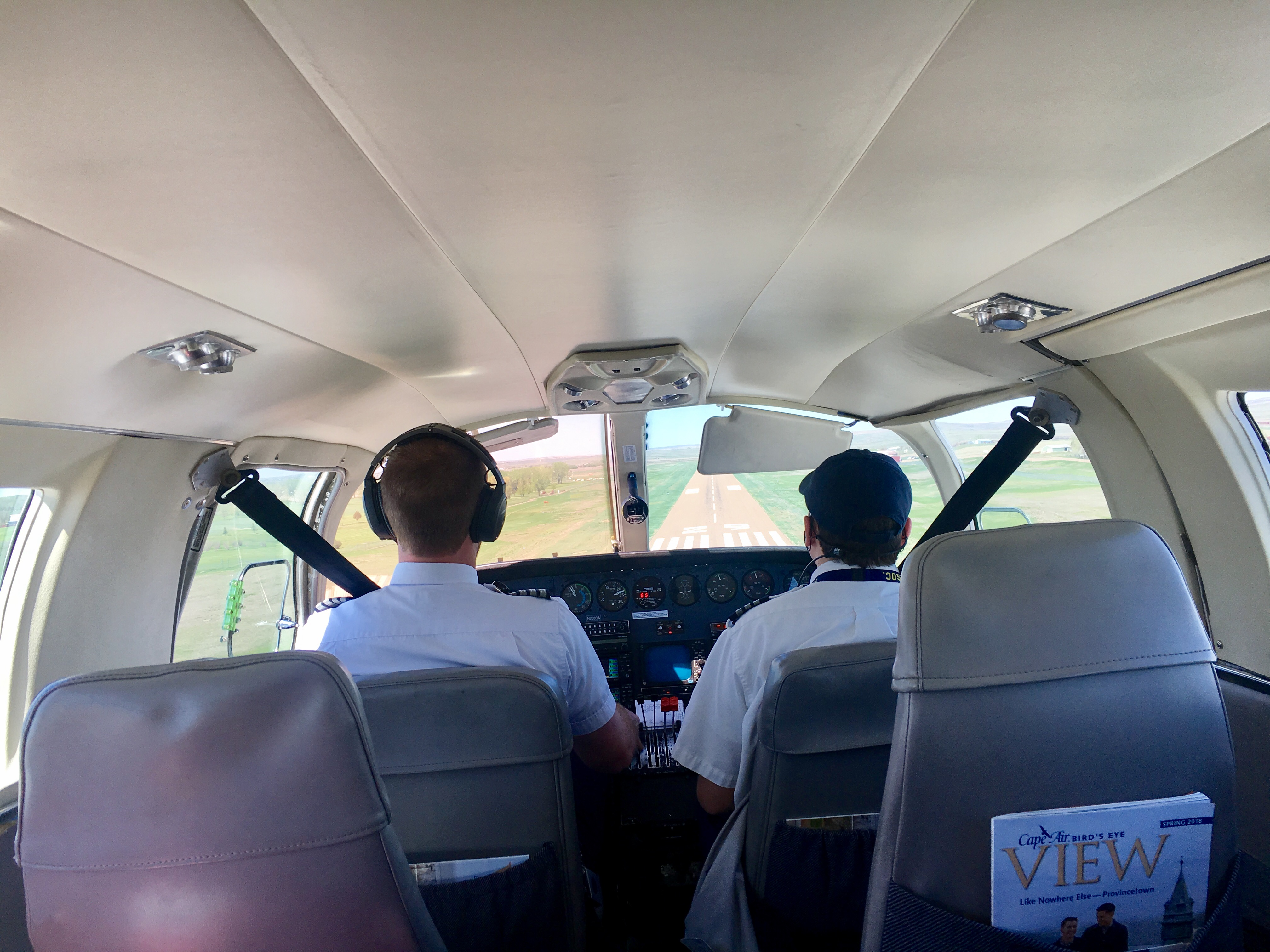 Approaching Runway 29 at L.M. Clayton Airport in a Cape Air Cessna 402C.